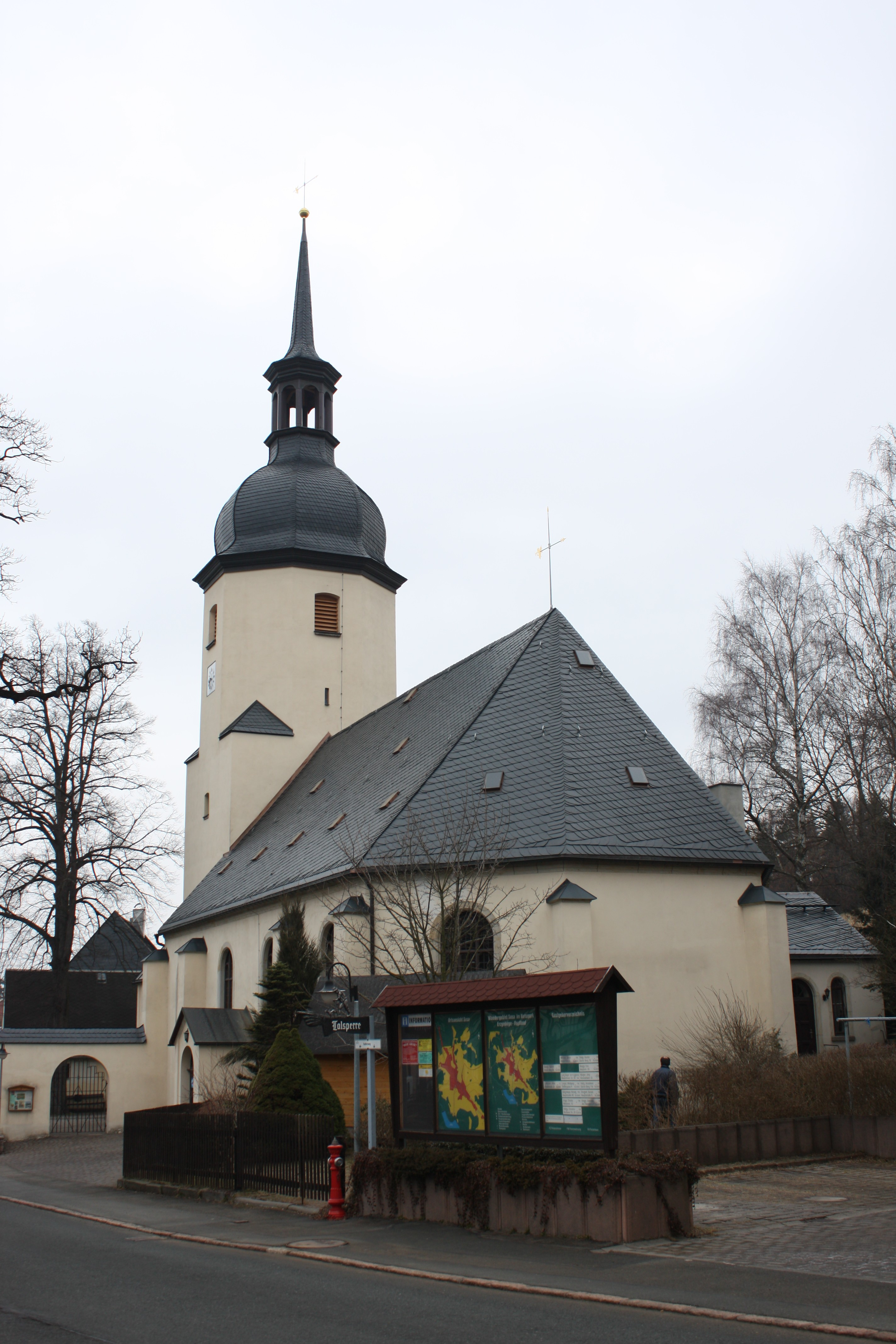 Sosa Lutheran Church